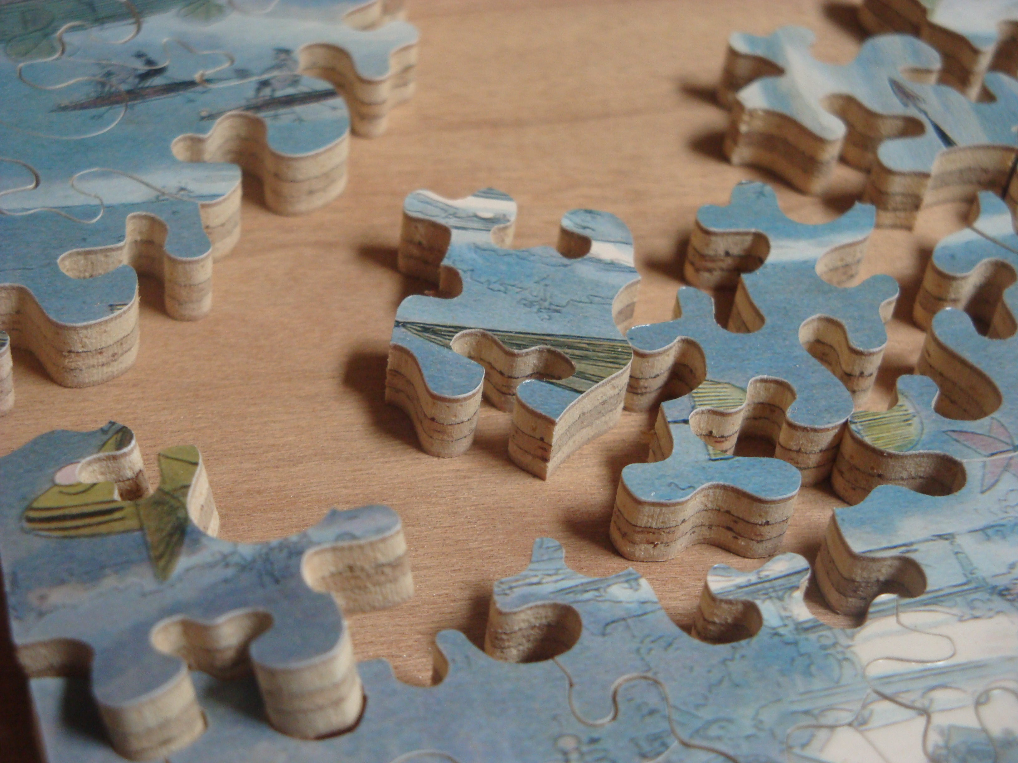 Jigsaw Puzzle hand cut by Charles W. Hamm featuring "Sortie de l'Opéra en l'an 2000" by Albert Robida. Here the earlet shape used by many puzzle cutters to lock pieces together can be seen.